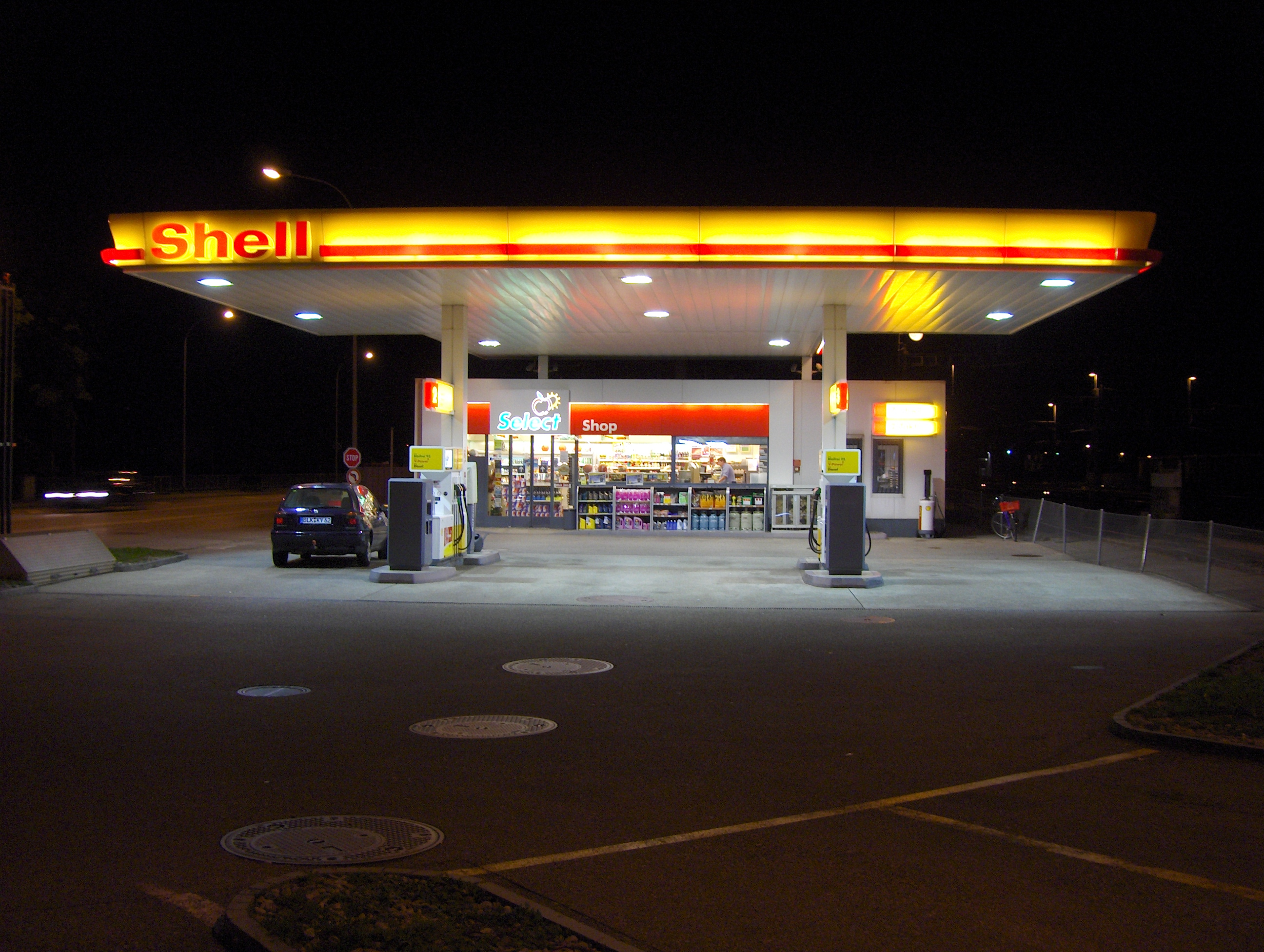 Shell gas station at Solothurn, Switzerland